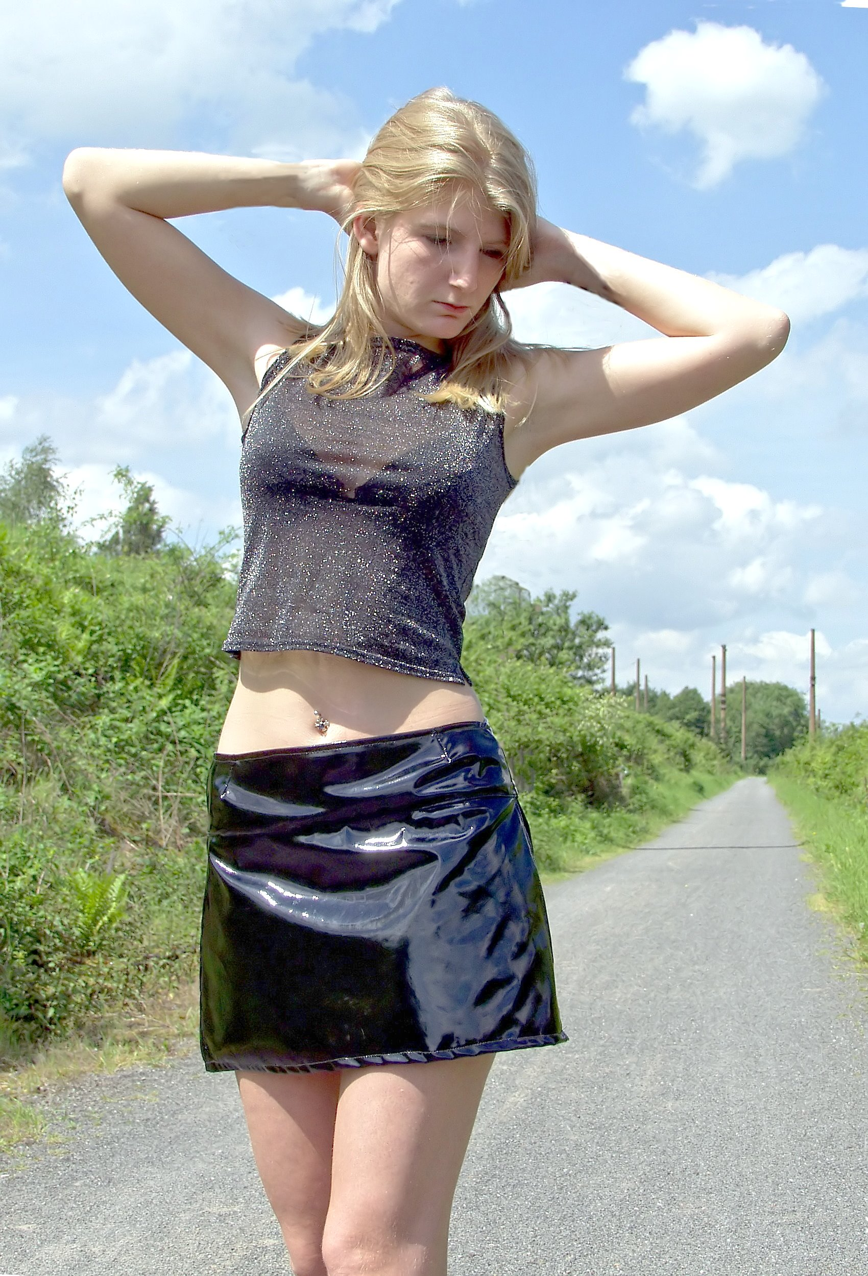 Fotomodel in a miniskirt at Landschaftspark Duisburg-Nord